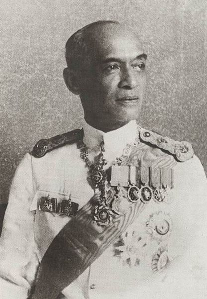 Rangsit Prayurasakdi, Prince of Chainat. Son of King Chulalongkorn.